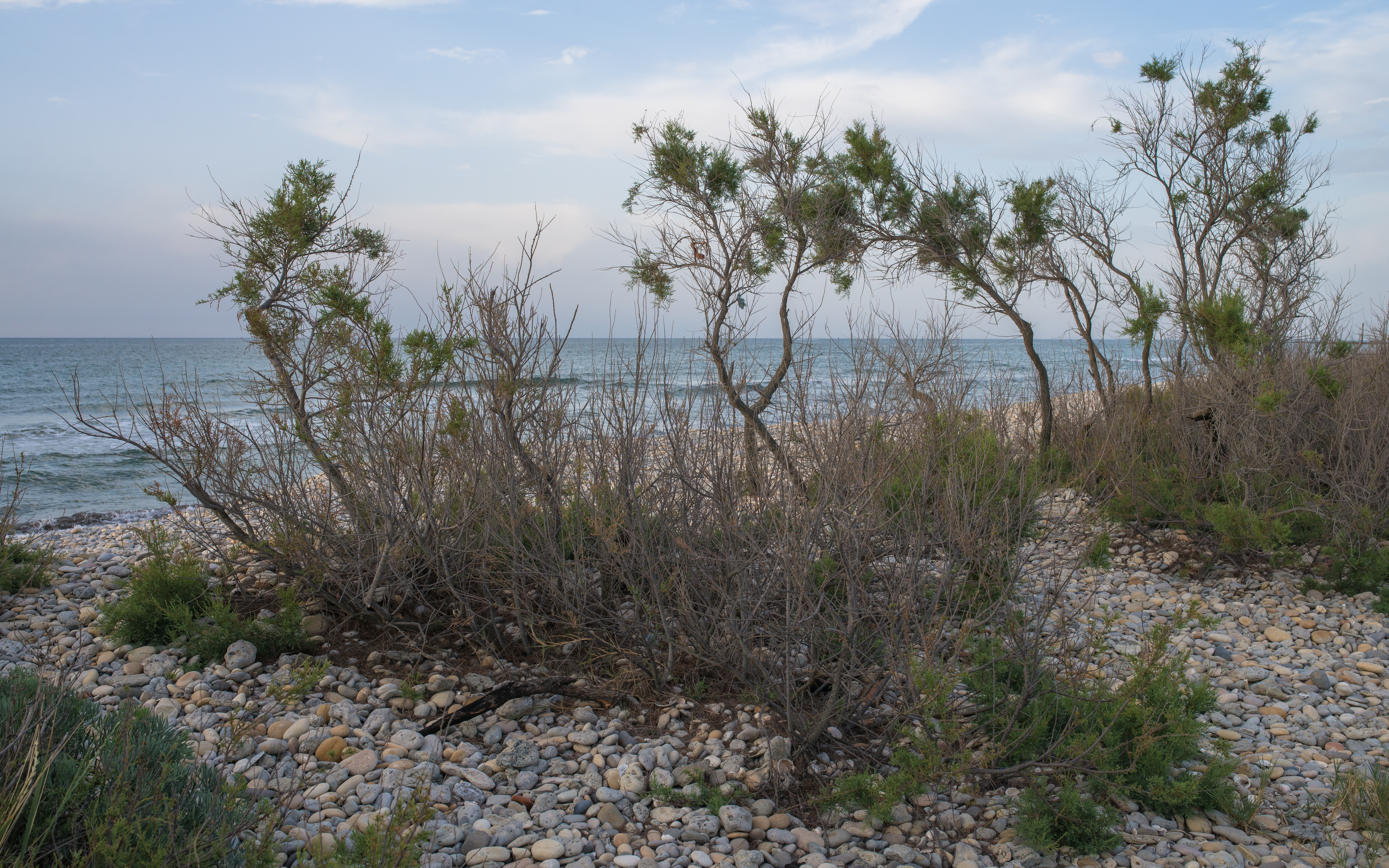 French Tamarisk (Tamarix gallica) on the beach in front of the Mediterranean Sea. Vic-la-Gardiole, Hérault, France.